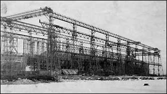 Gantry cranes at Fore River Shipyard, circa 1922.